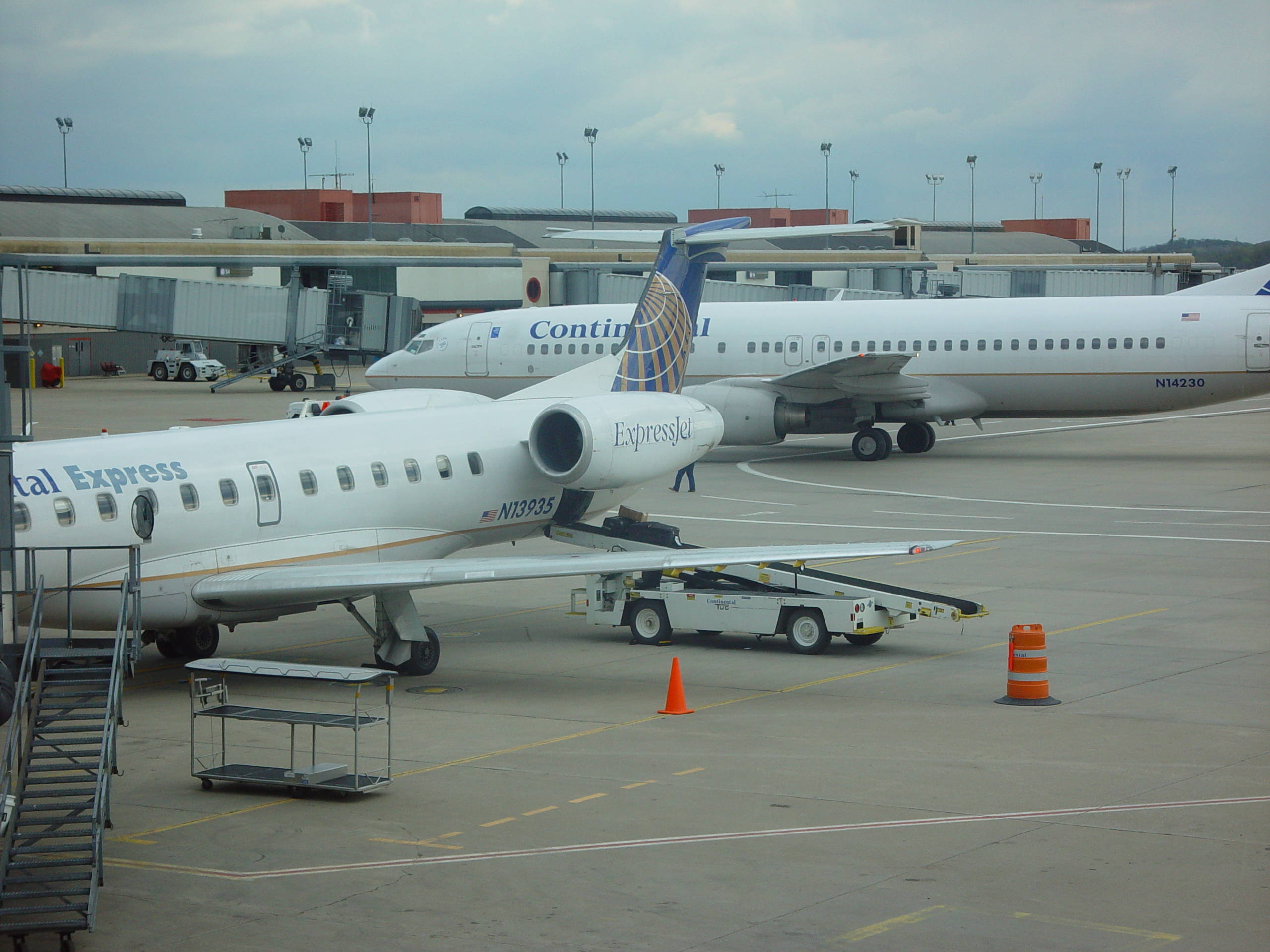 Pittsburgh Airport